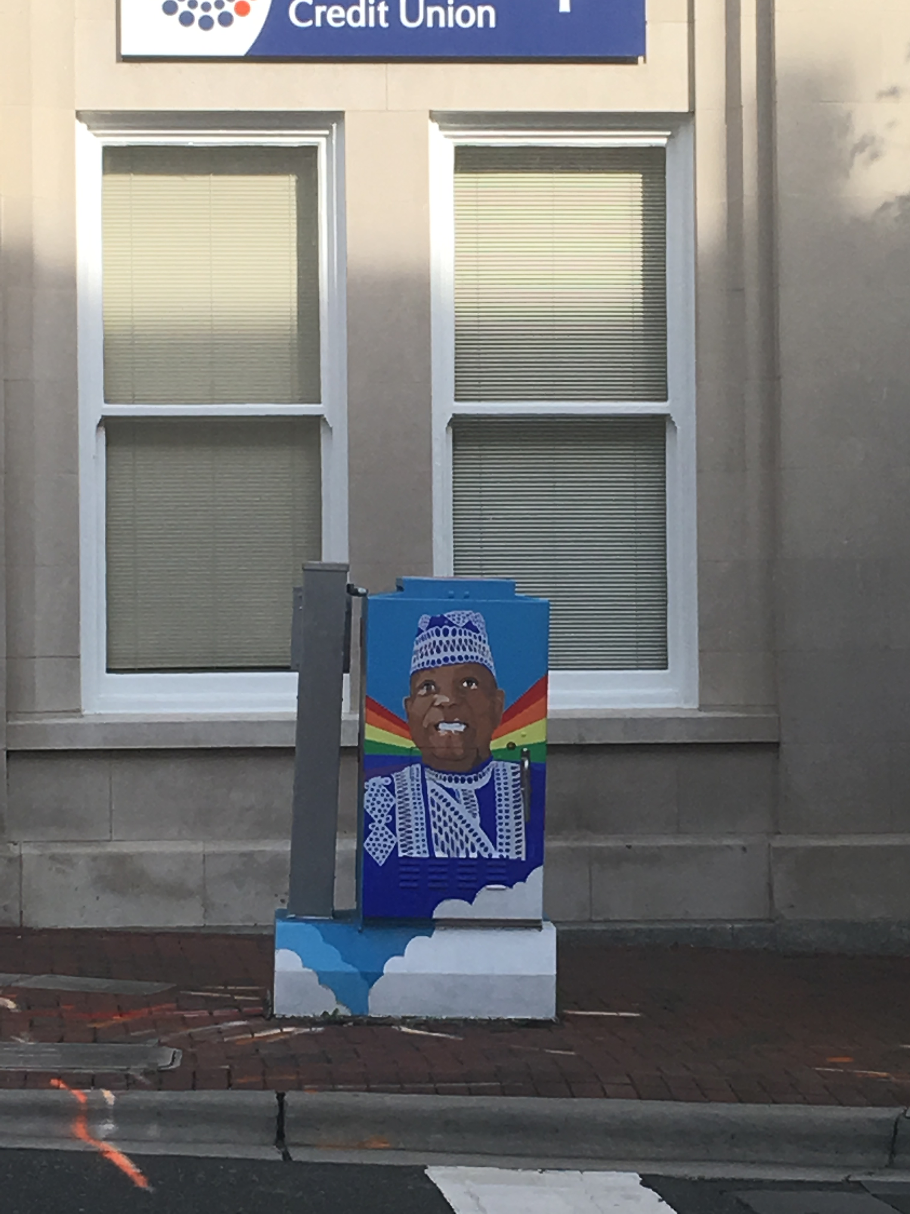 Street art of Chuck Davis in downtown Durham, North Carolina